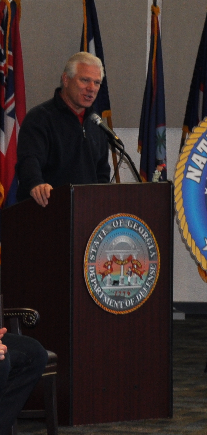 Frank Wren speaking to National Guardsmen in Marietta, Georgia on January 2013